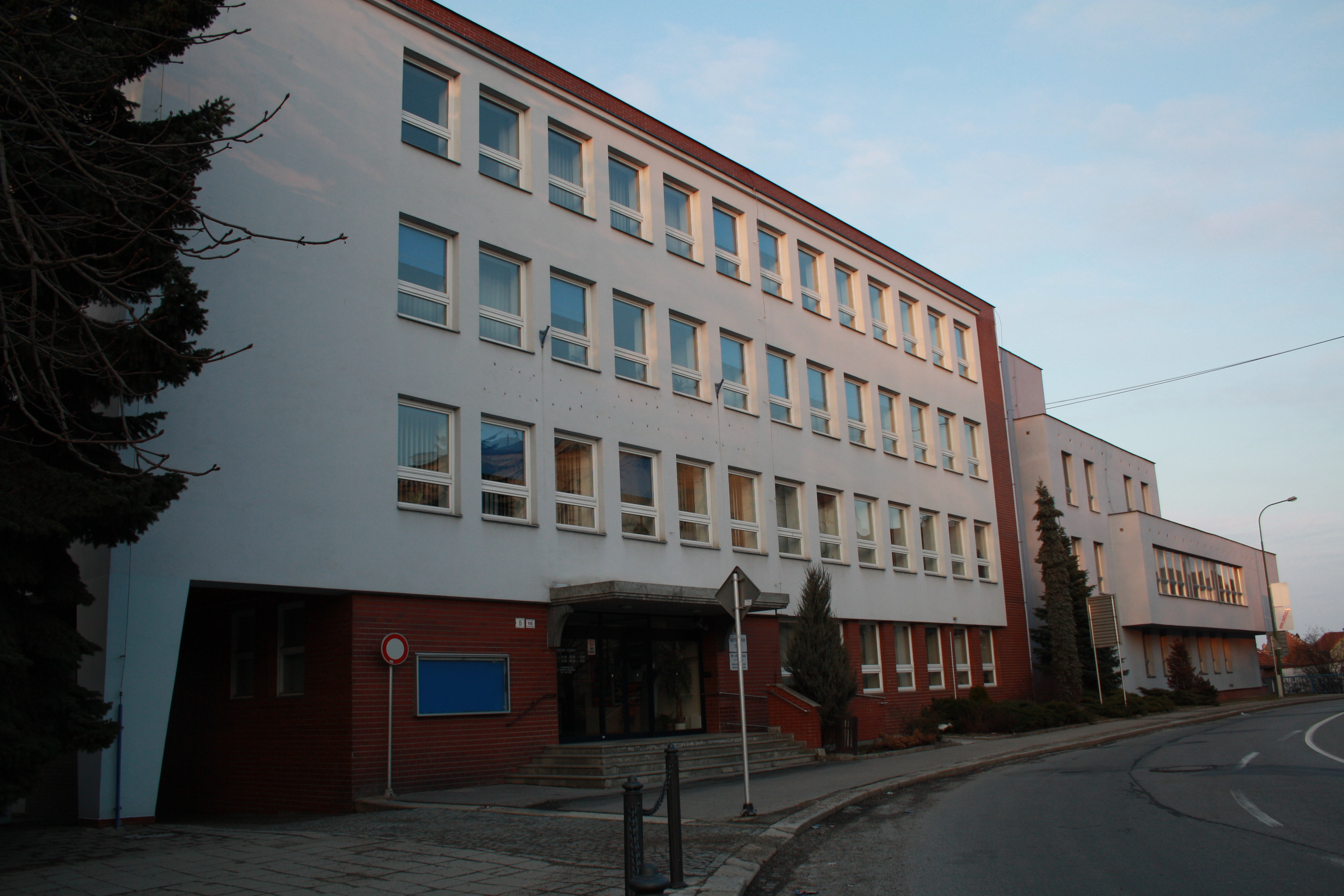 County hall in Třebíč.